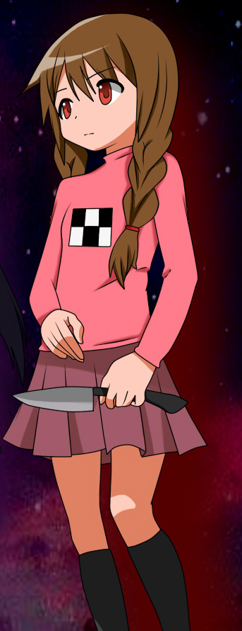 Madotsuki with knife effect